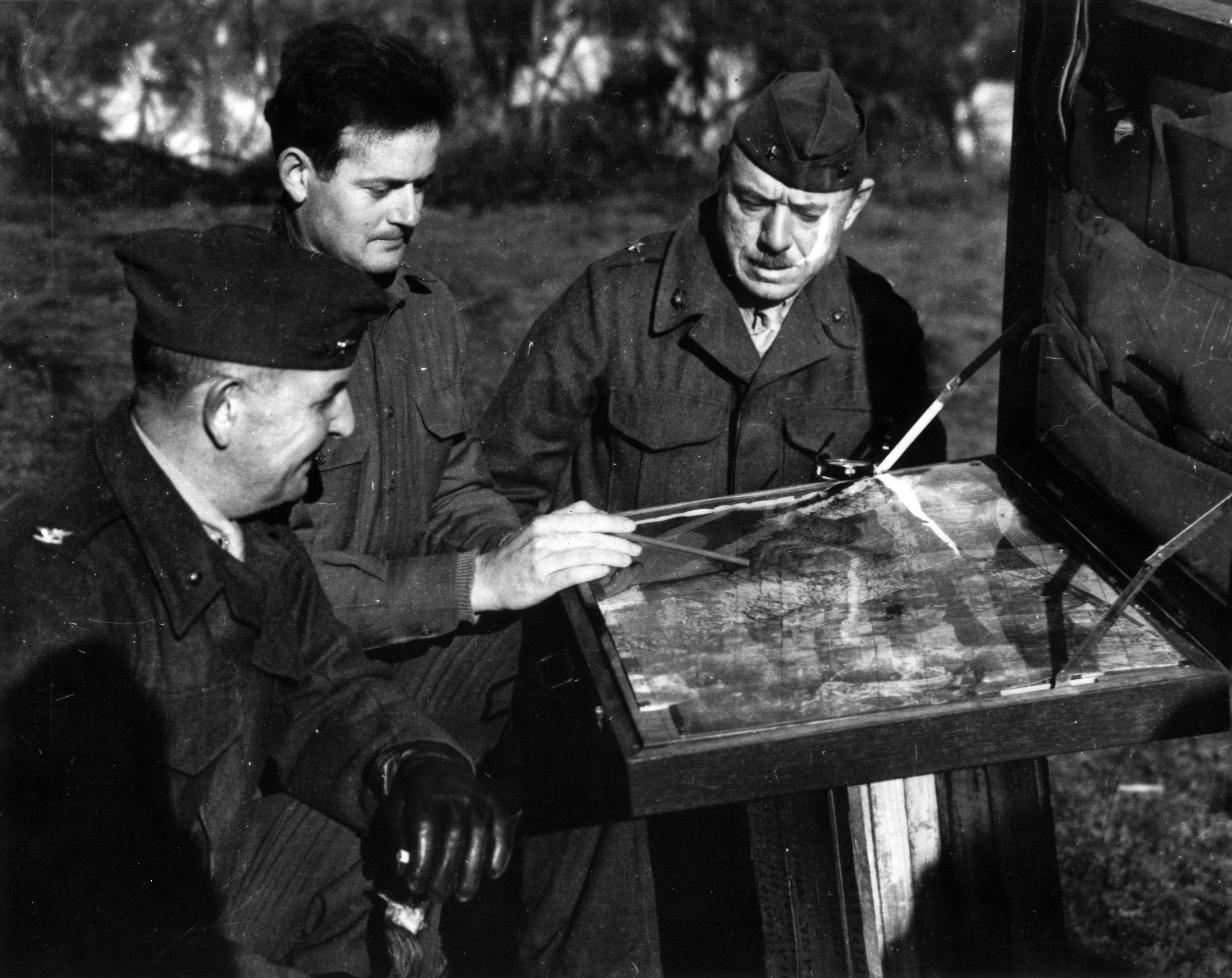 Planning next move: Major general William H. Rupertus, commanding the 1st Marine Division (right), watches as Major Gordon D. Gayle (center), operations officer of the 5th Marine Regiment, plots the field map. Colonel John T. Selden, commanding the 5th Marine Regiment is in the foreground. Picture was taken at Camp Balcombe near the town of Mount Martha, Victoria, Australia.